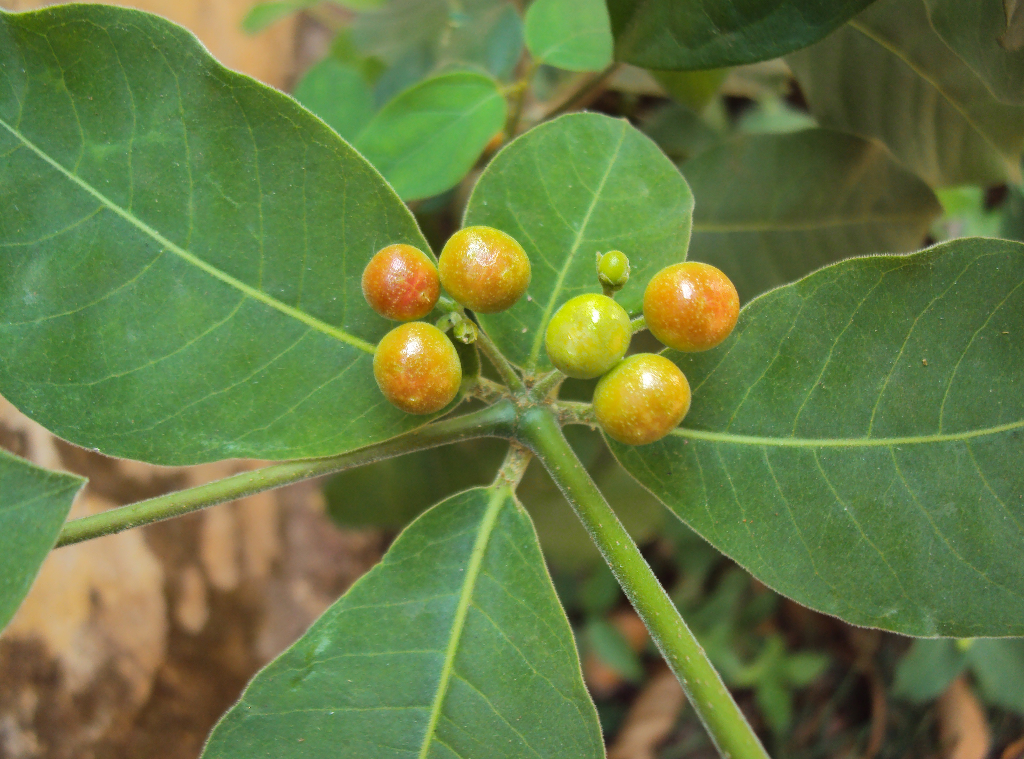 Rauvolfia tetraphylla